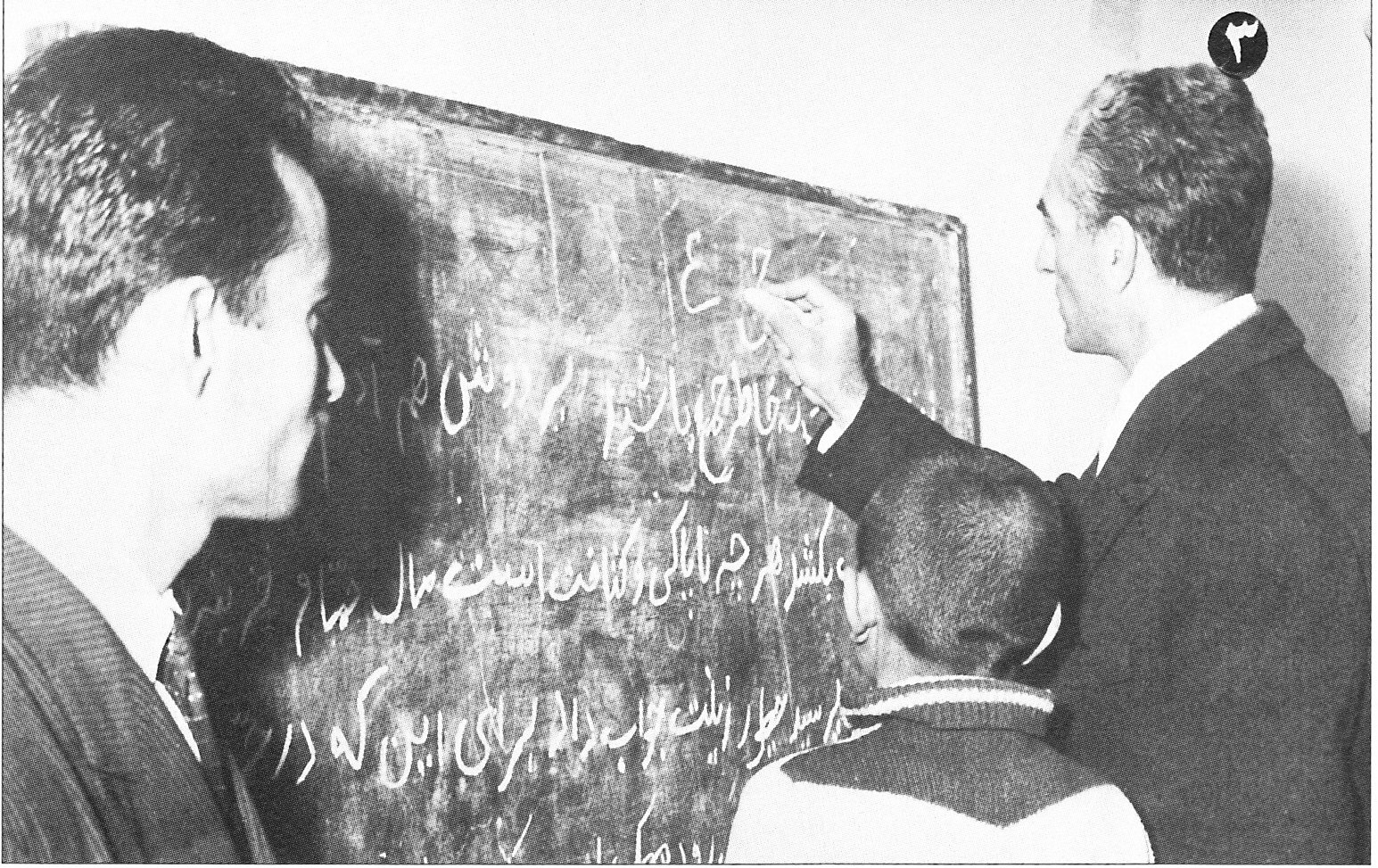 Shah Mohammad Reza Pahlavi visits a new build school, white revolution, 1963